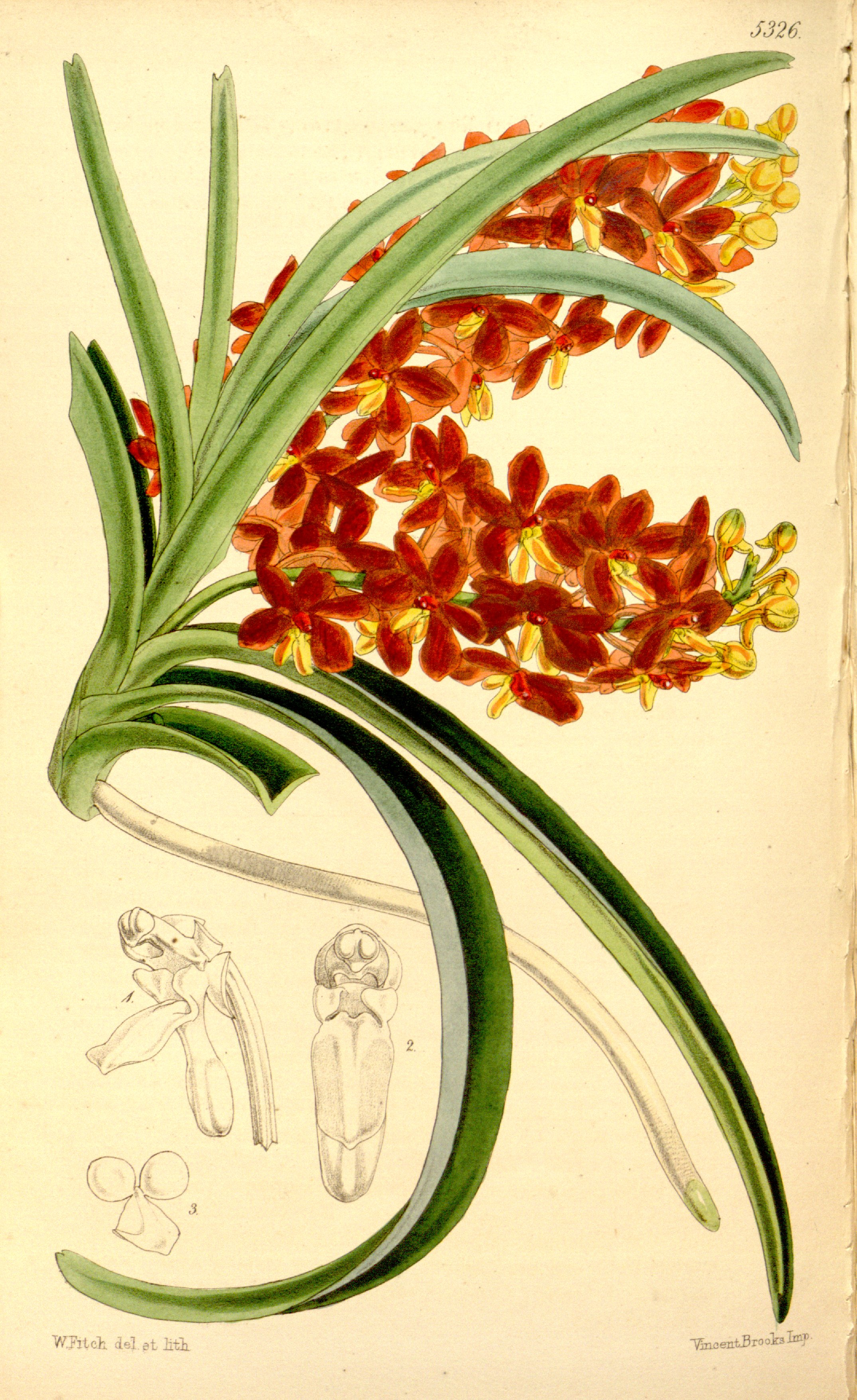 Illustration of Ascocentrum curvifolium (as syn. Saccolabium miniatum)